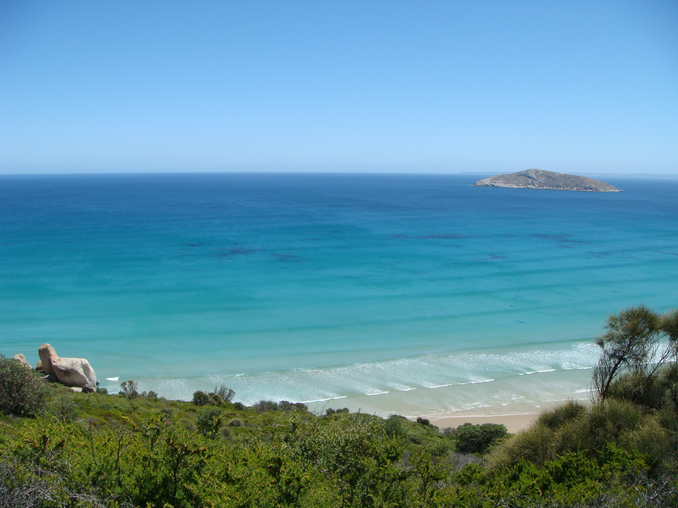 Looking out west from Tongue Point, Wilson Promontory to Shellback Island